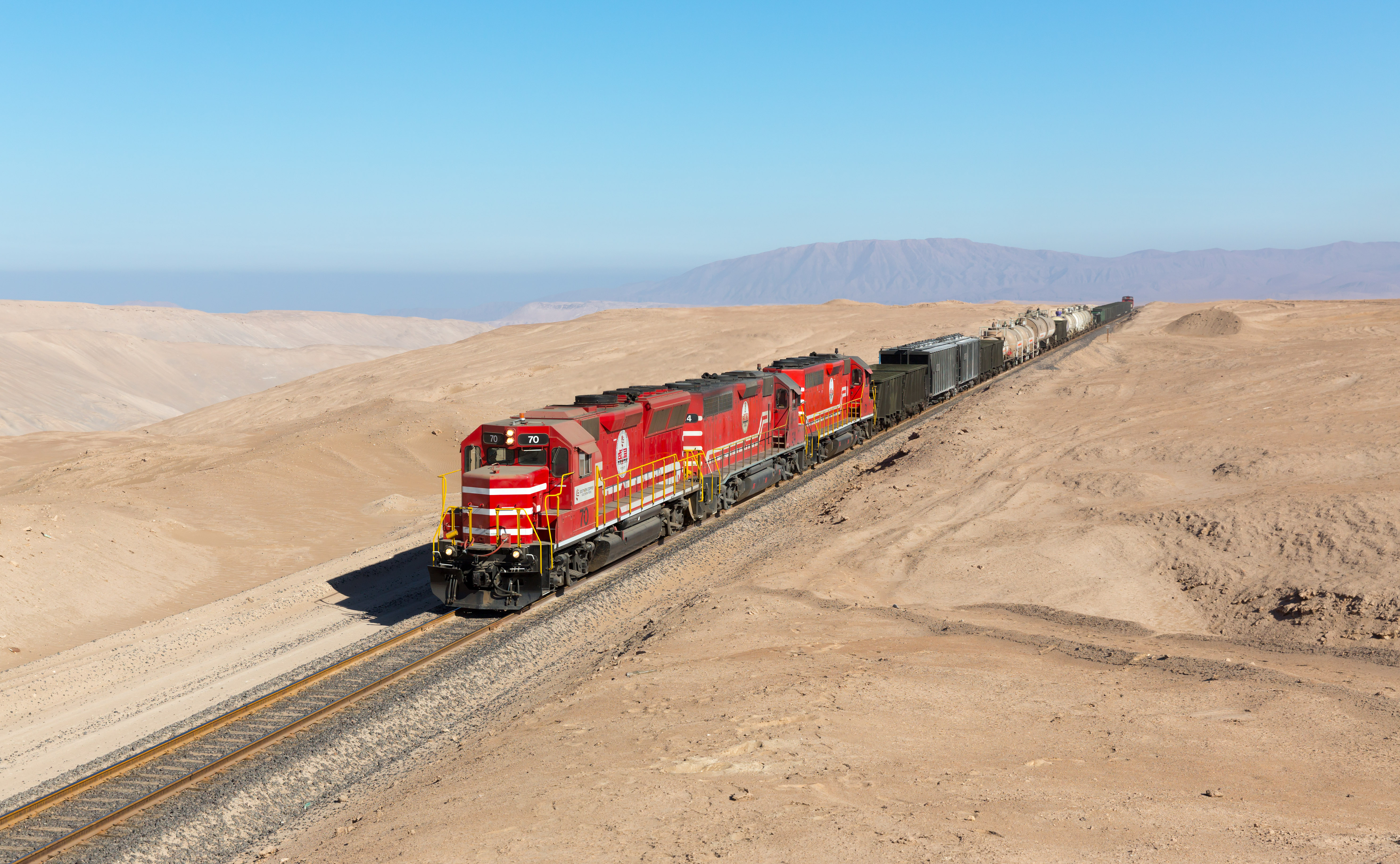 Southern Peru Copper Corporation train hauled by three EMD GP22ECO on its way from Ilo to the mines of Toquepala and Cuajone, Peru.